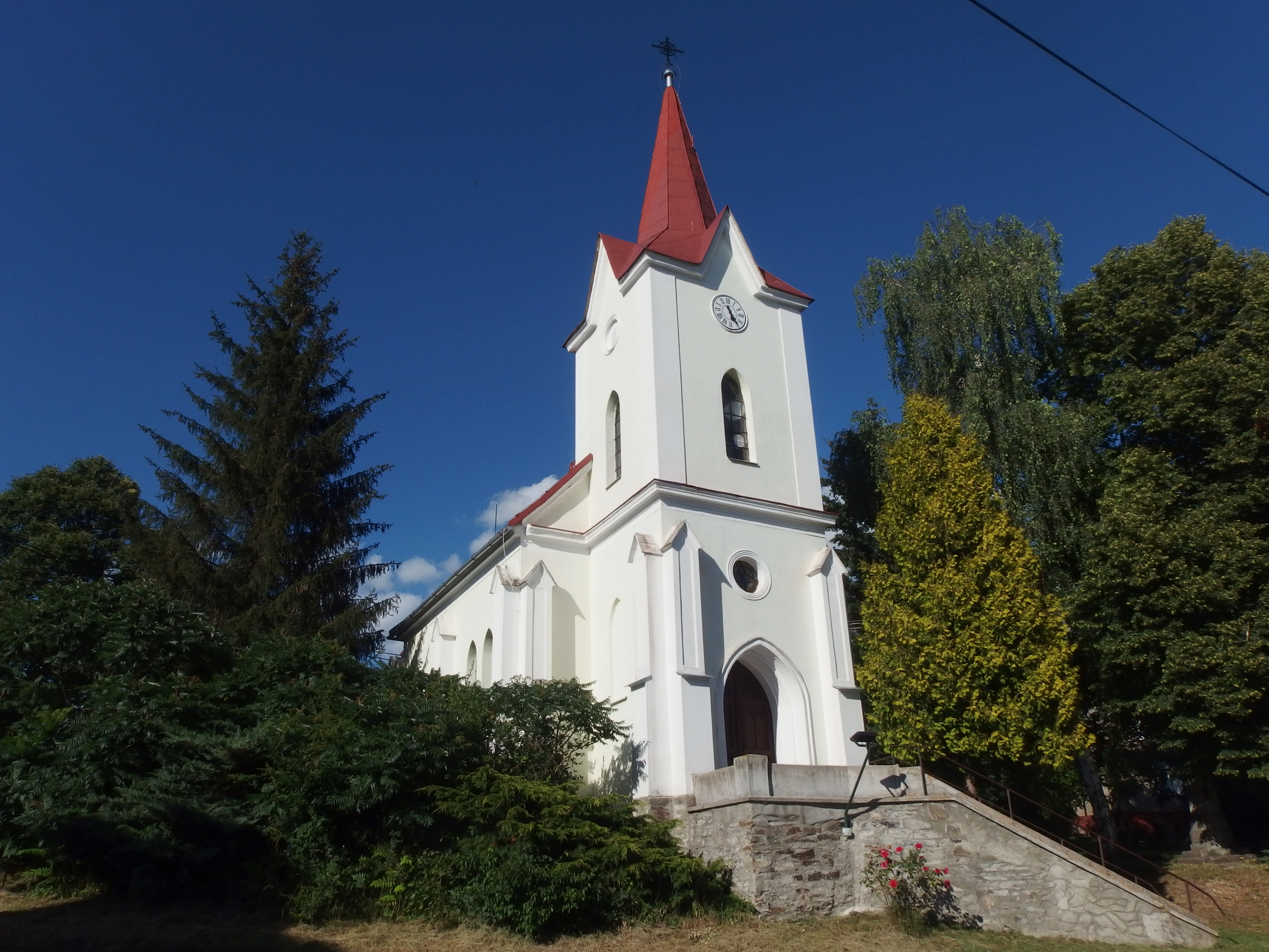 Dlouhá Loučka, Olomouc District, Czechia, part Křivá.